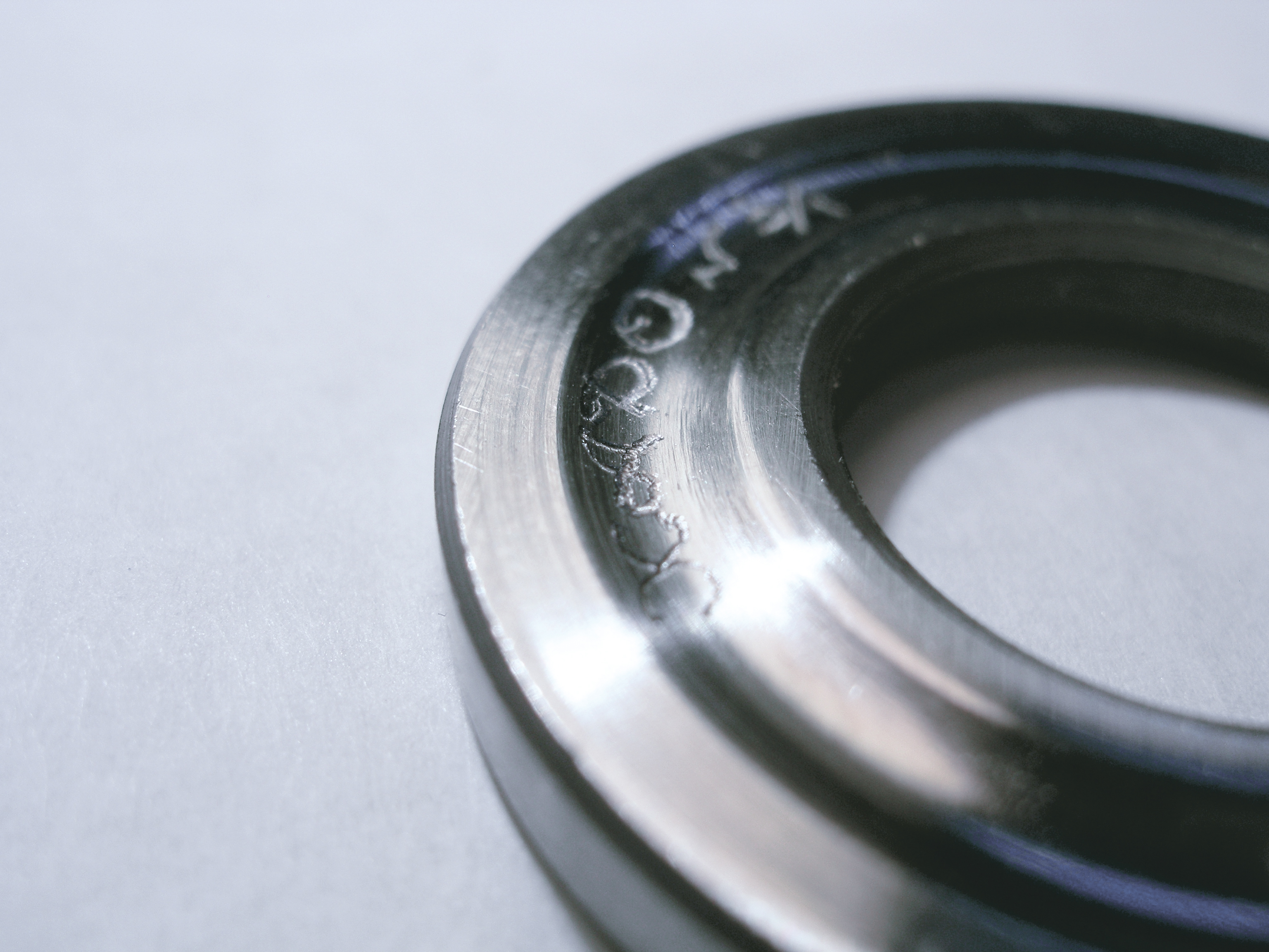 The test piece with special marking